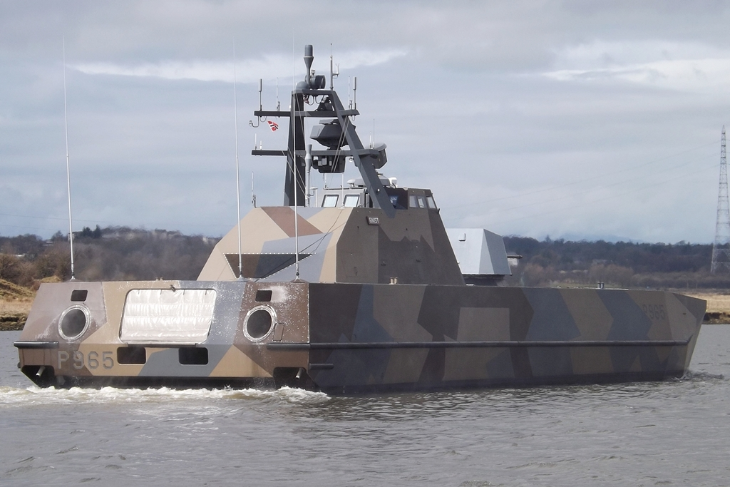 P965 KNM Gnist, a Skjold-class patrol boat of the Royal Norwegian Navy